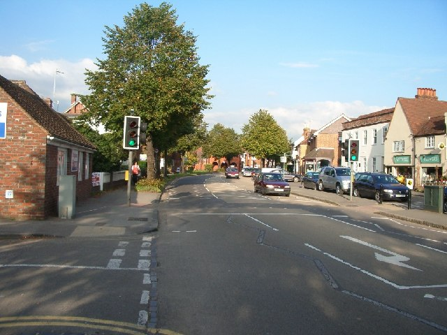 High Street, Ripley